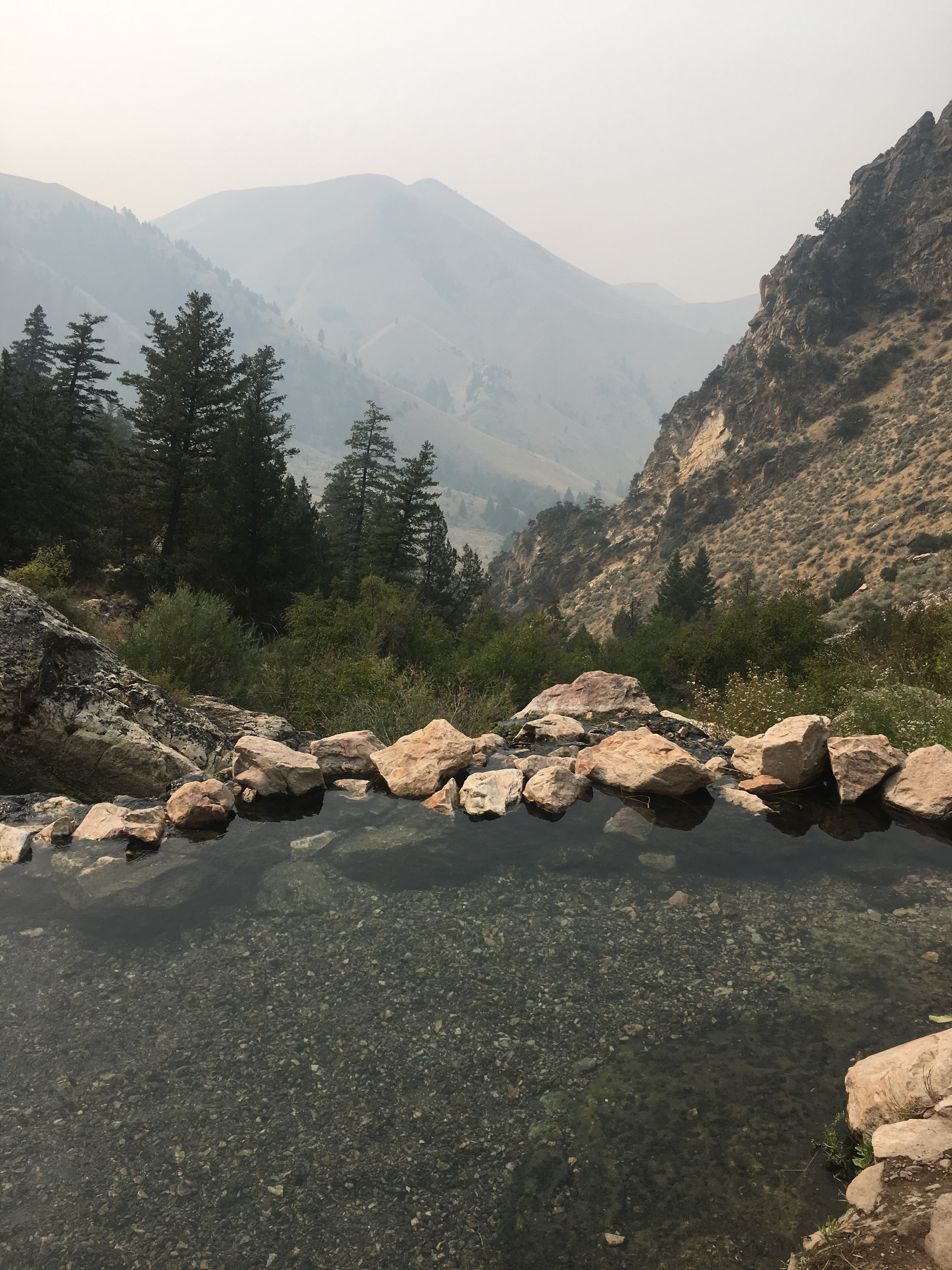 Looking down from Goldbug Hot Springs near Salmon, Idaho.